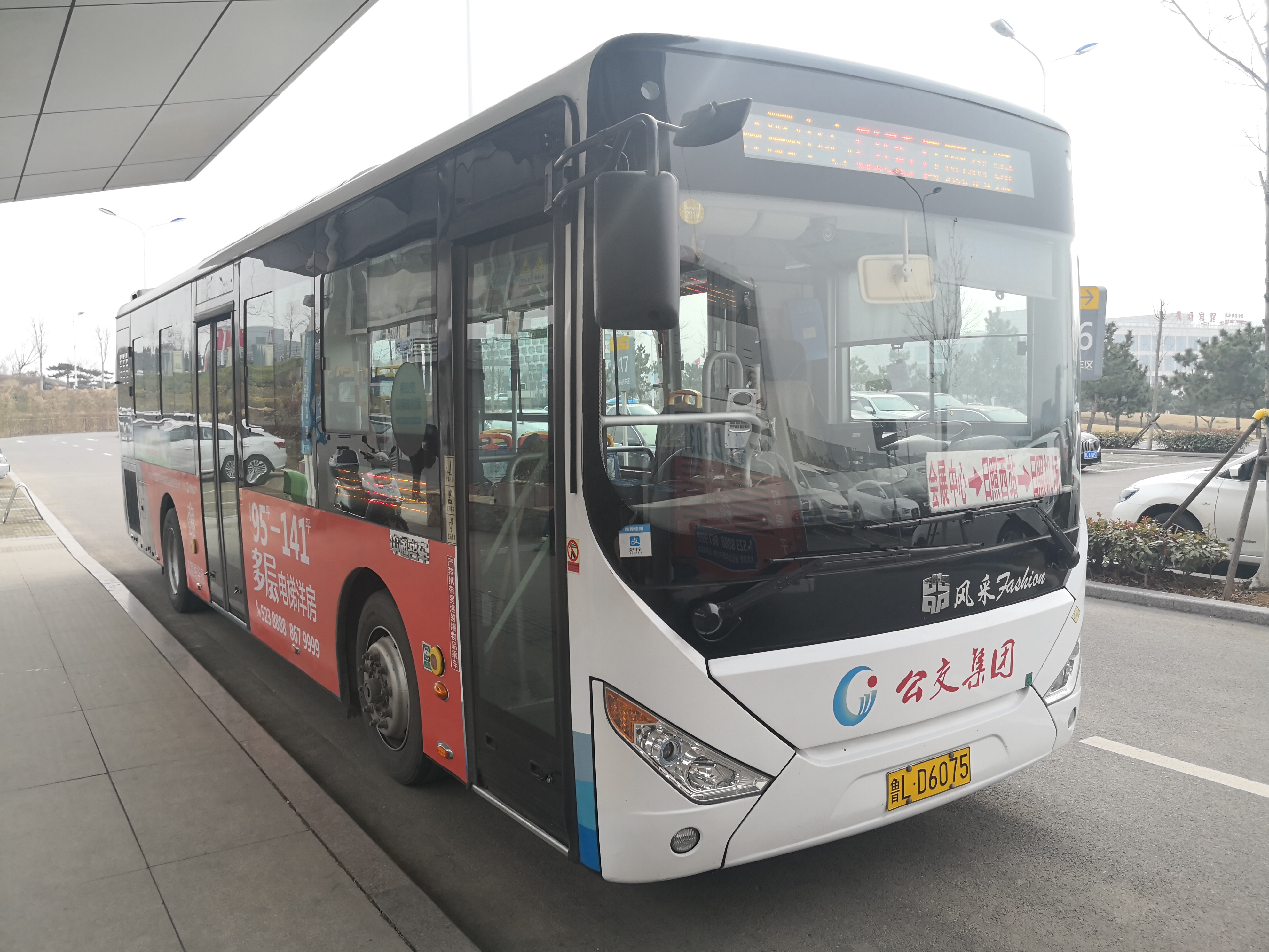 Rizhao C106, Exhibition Center—Shanzihe Airport